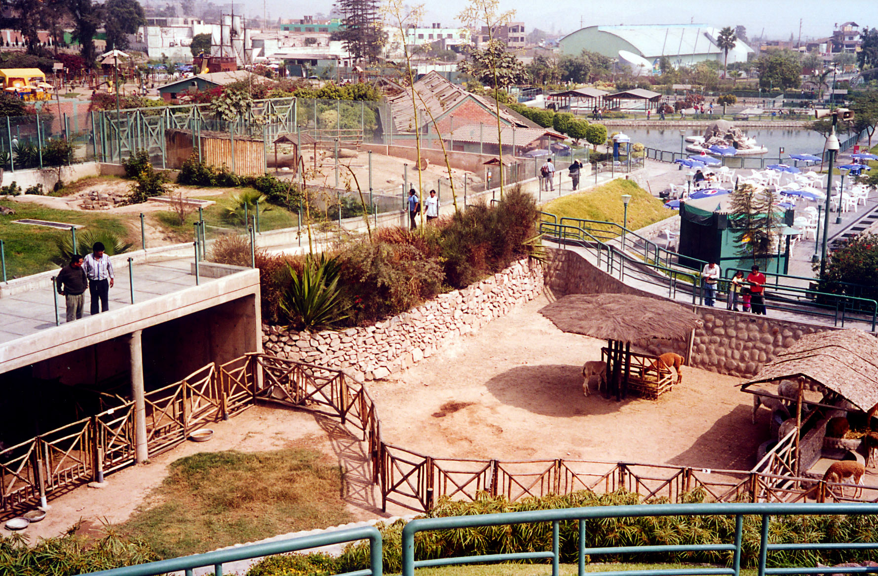 Huachipa Centro Ecológico Recreacional Huachipa, Santa María de Huachipa, Distrito de Lurigancho, Provincia de Lima, Perú. General view. The photo was taken the 8 of June, 2002, by Håkan Svensson (Xauxa).